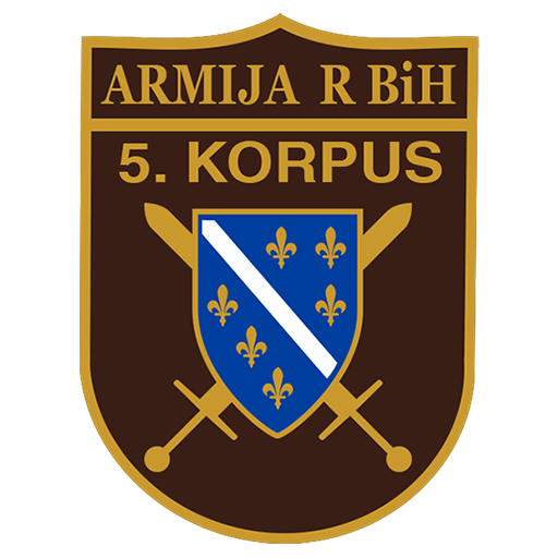 Peti korpus armije republike Bosne i Hercegovine